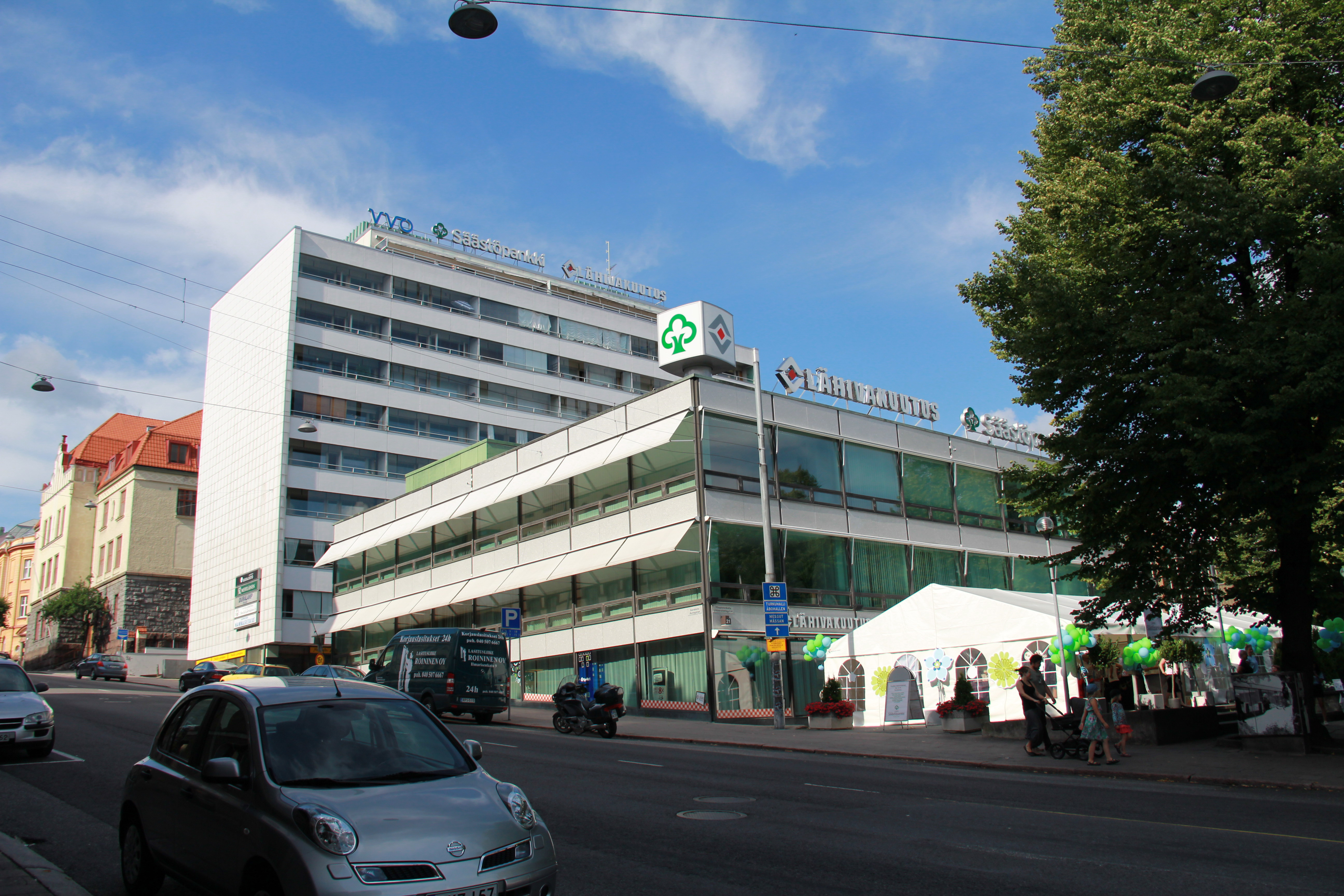 Salamankulma aparment house (left) and office wing (right), Turku, Finland. Designed by architects Matti Hakala and Aarne Nuortila, assisting student Sakari Kauria. Completed in 1961.